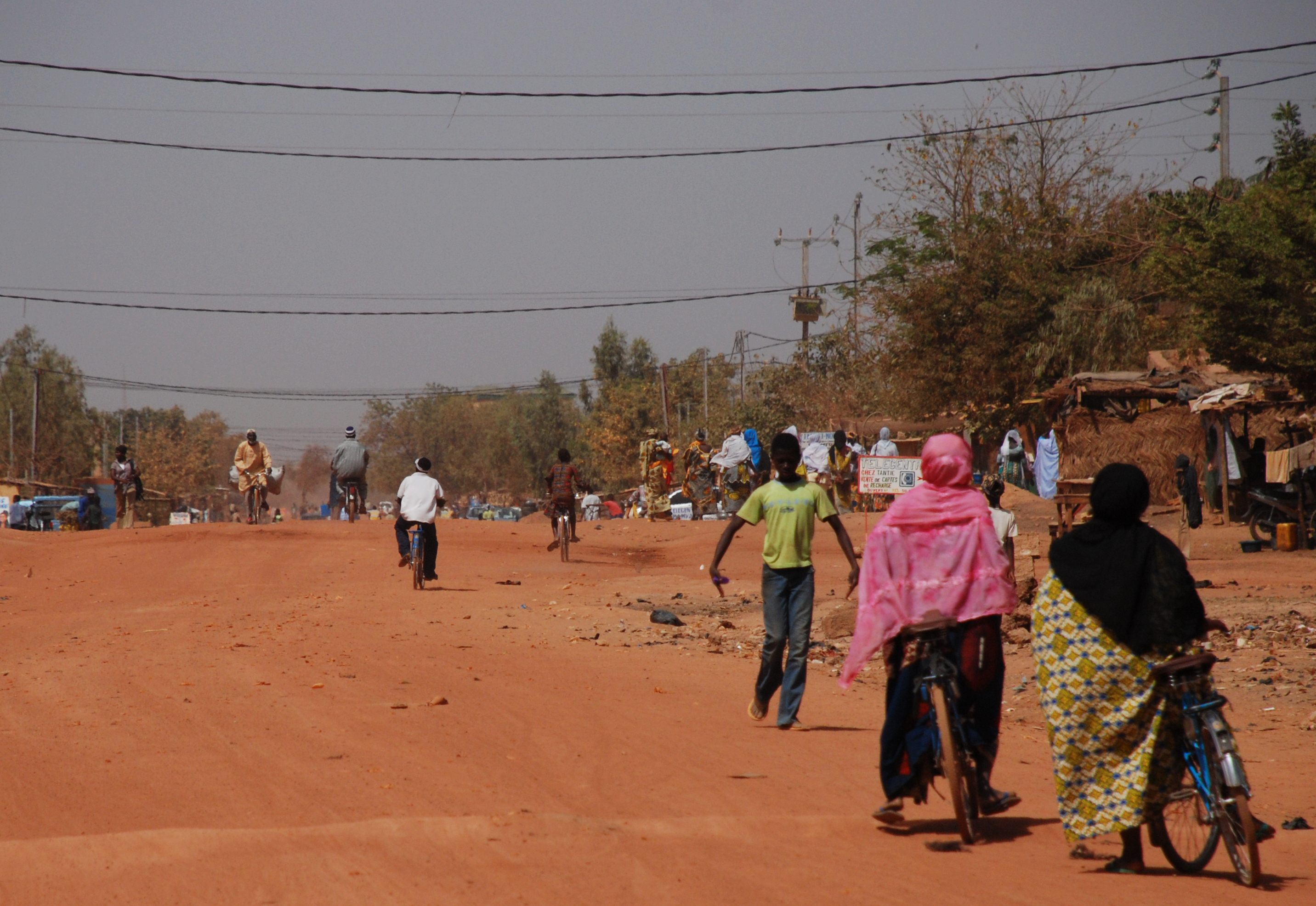 Dust road in Ouagadougou, south-east of airport and the "circulaire"